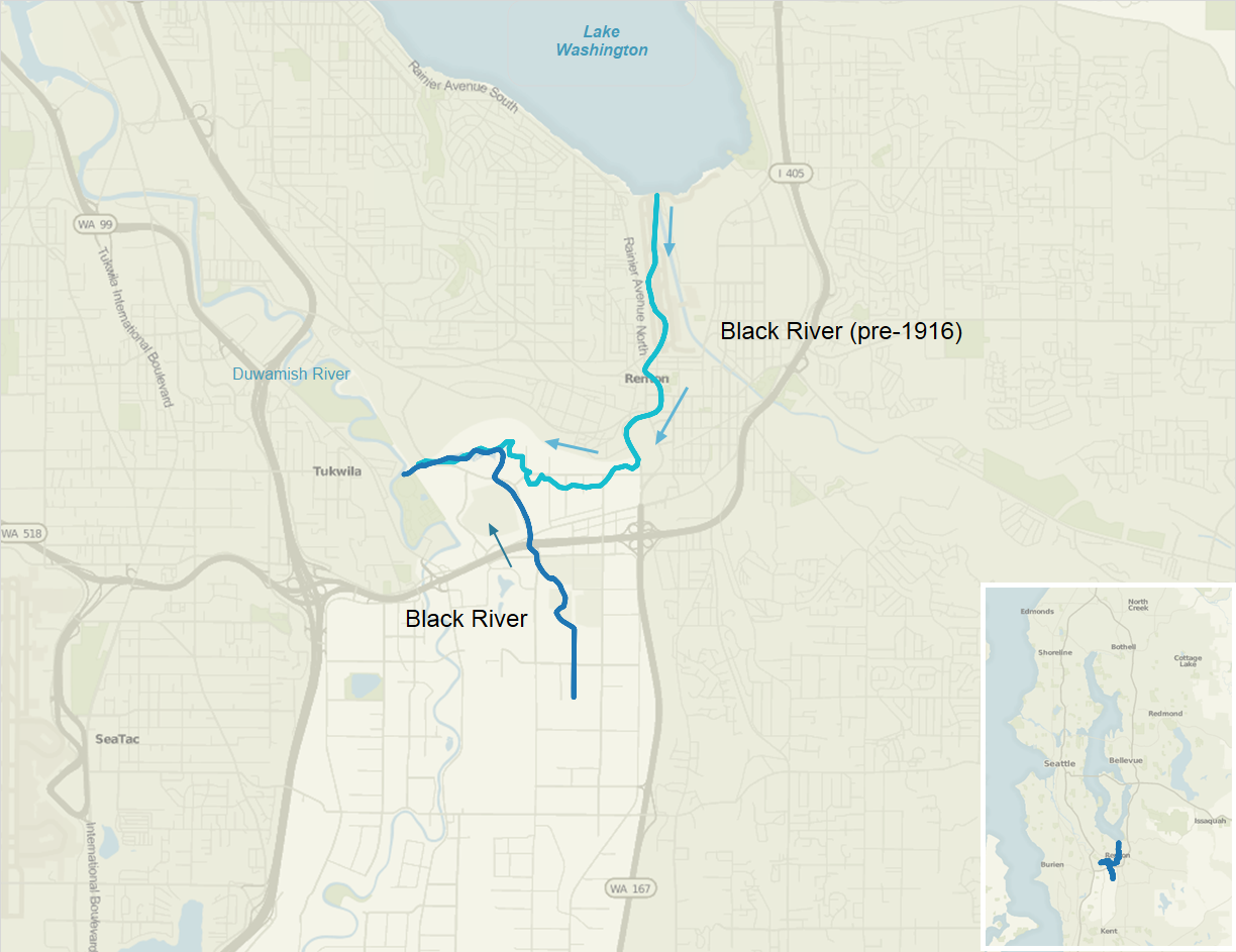 Map of Black River, Washington showing pre-1916 and 2013 river course. Created with Tableau Software.